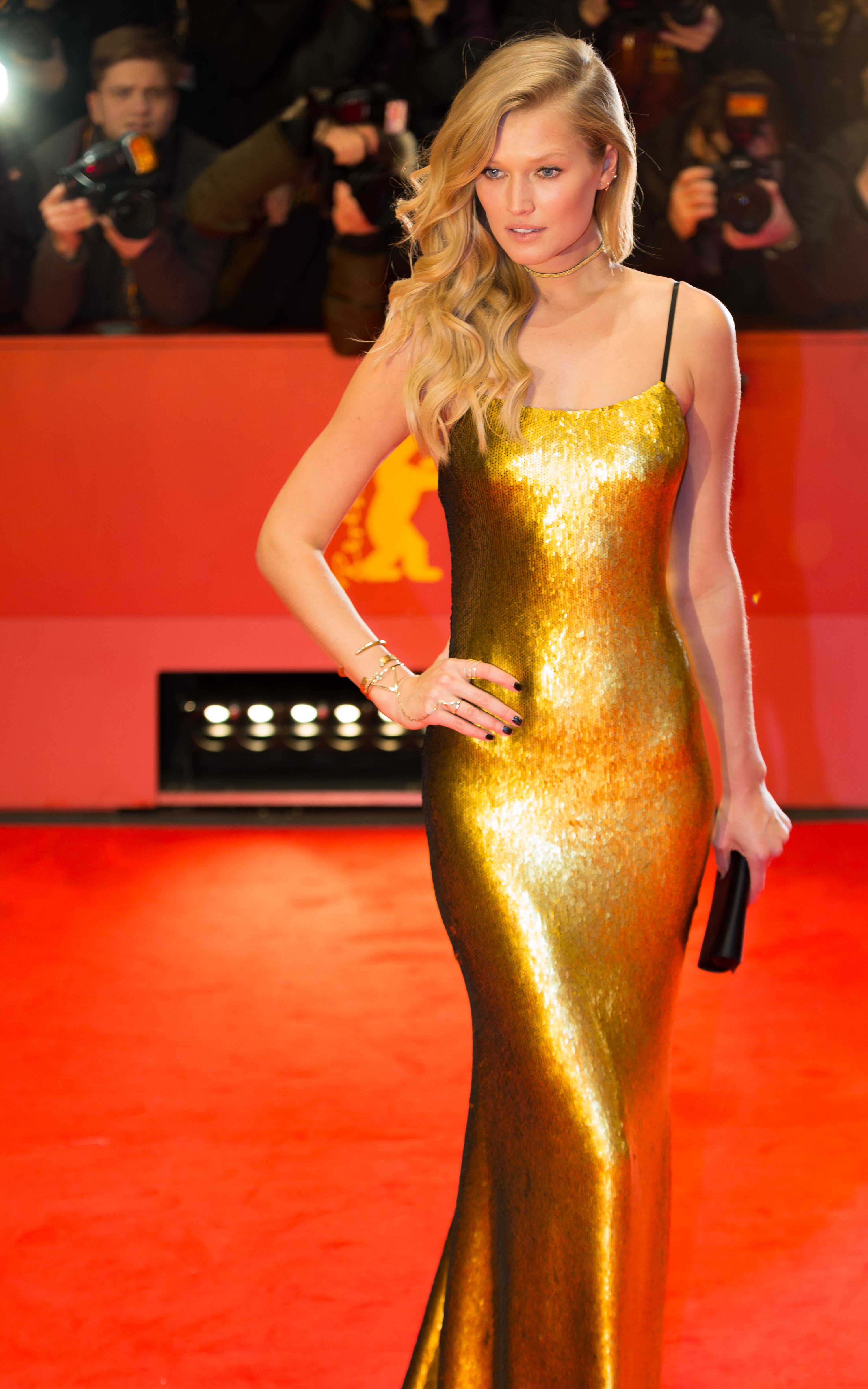 Toni Garrn on the red carpet of the Berlinale 2017 opening film